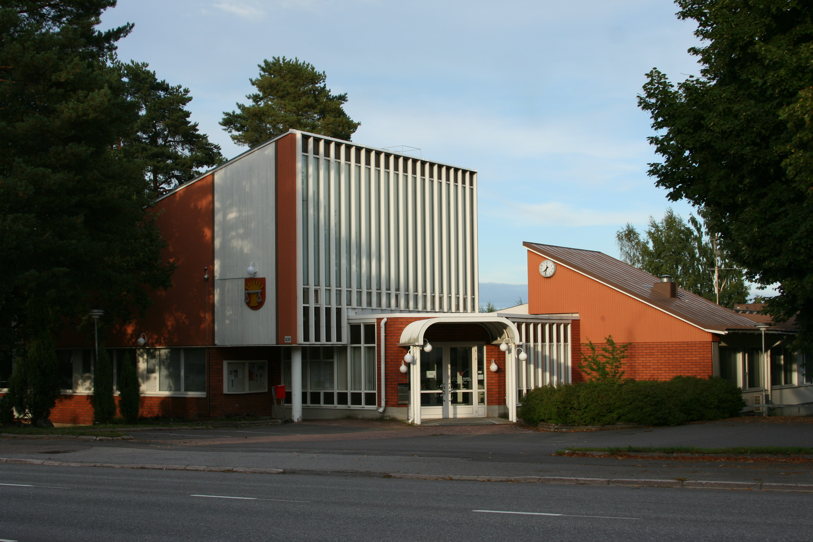 Pöytyä town hall, Riihikoski, Pöytyä, Finland. Built in 1960's.